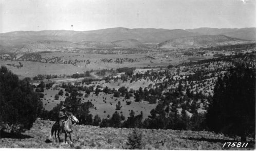 1923 - Reserve Valley, Apache National Forest